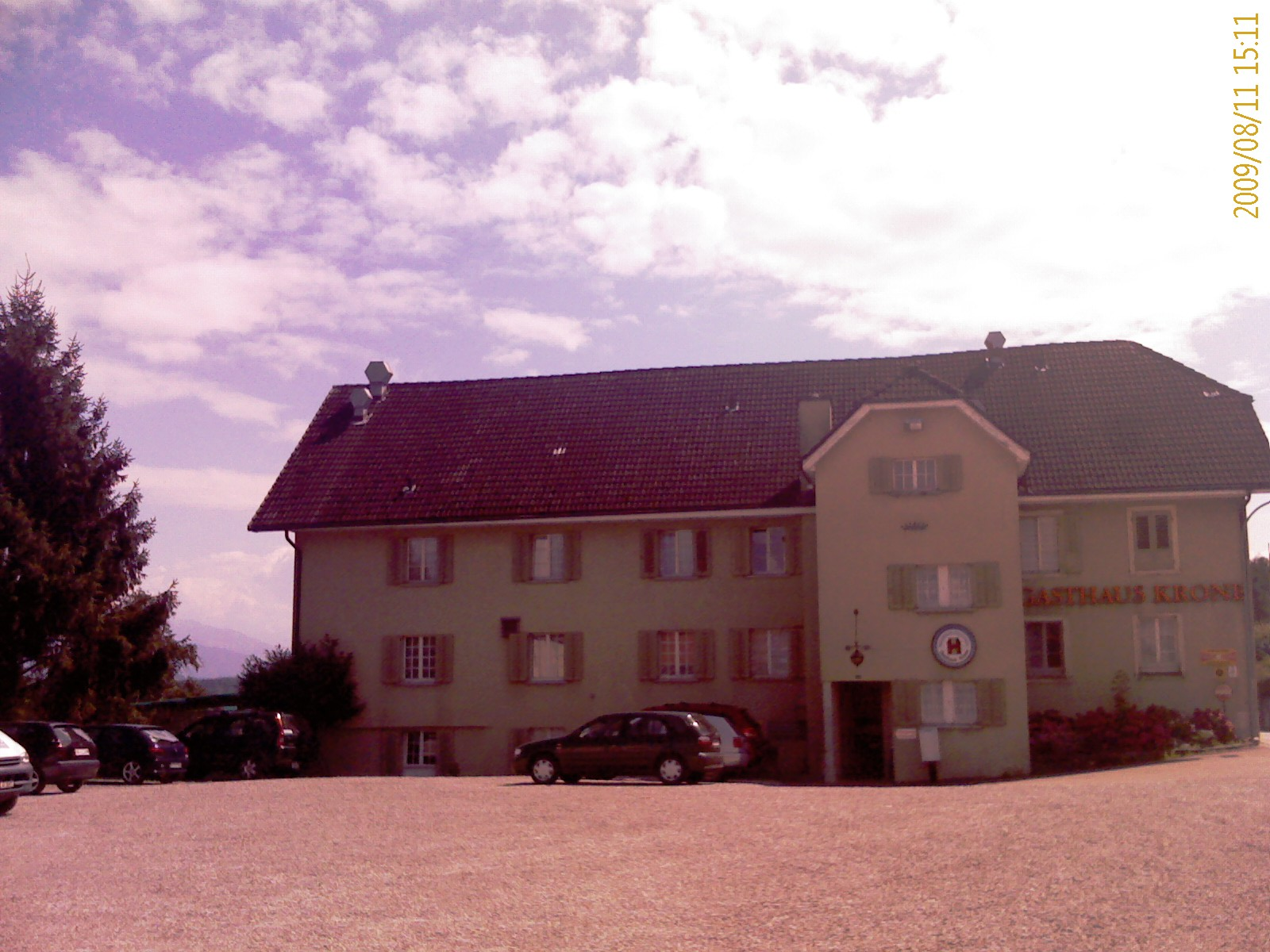 Restaurant Krone at Birri, municipality of Aristau, canton of Aargau, SwitzerlandEsperanto: Gastejo Krone en Birri, komunumo Aristau, Kantono Argovio, Svislando